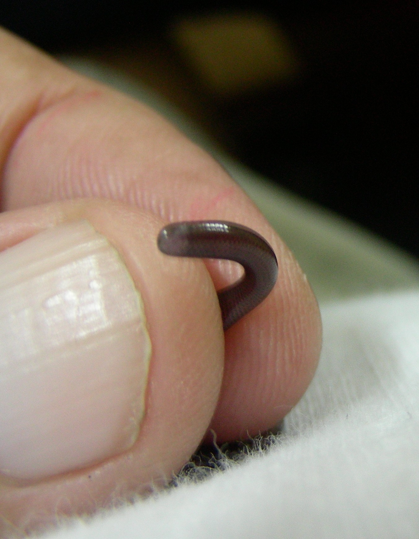 Blind snake Typhlops spp, Family Typhlopidae, Serpentes. Caught in Binnaguri, Dooars, northern West Bengal, India on 20 Sep 06. Image of head. Self-work. AshLin 13:13, 24 September 2006 (UTC)